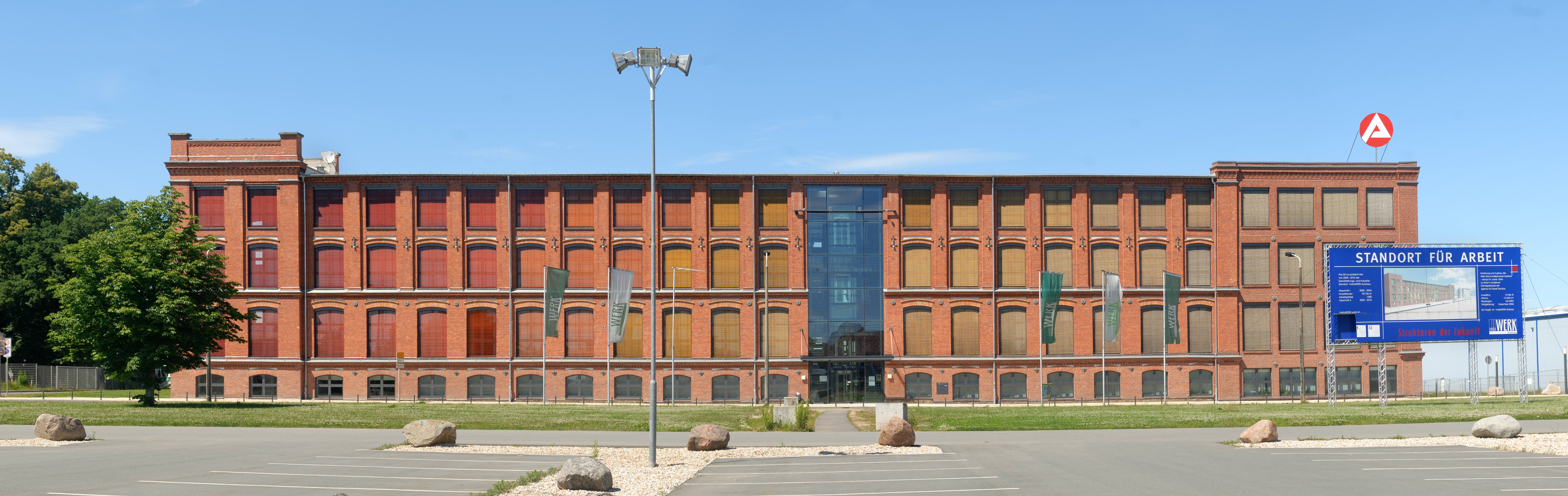 This image shows the job center in Zwickau, Germany. It is a five segment panoramic image.